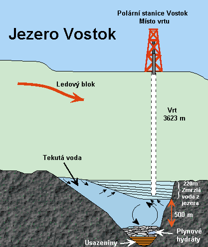 Scheme of Lake Vostok with Czech description.